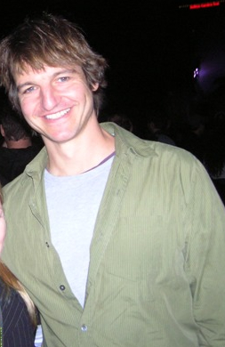 Actor William Mapother